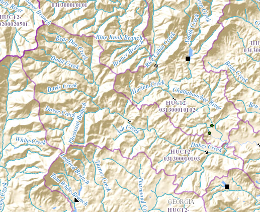 HUC 031300010103 - Dukes Creek bisecting its sub-watershed from west to east, and flowing into the Chattahoochee River in the northeastern corner of the sub-watershed